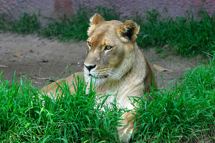 Lion (Panthera leo) at the San Diego zoo